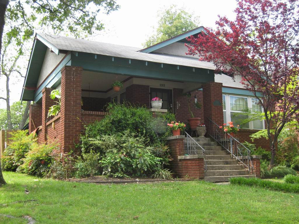 Example of Craftsman Bungalow style architecture in Capitol View/Stifft's Station, Little Rock, Arkansas